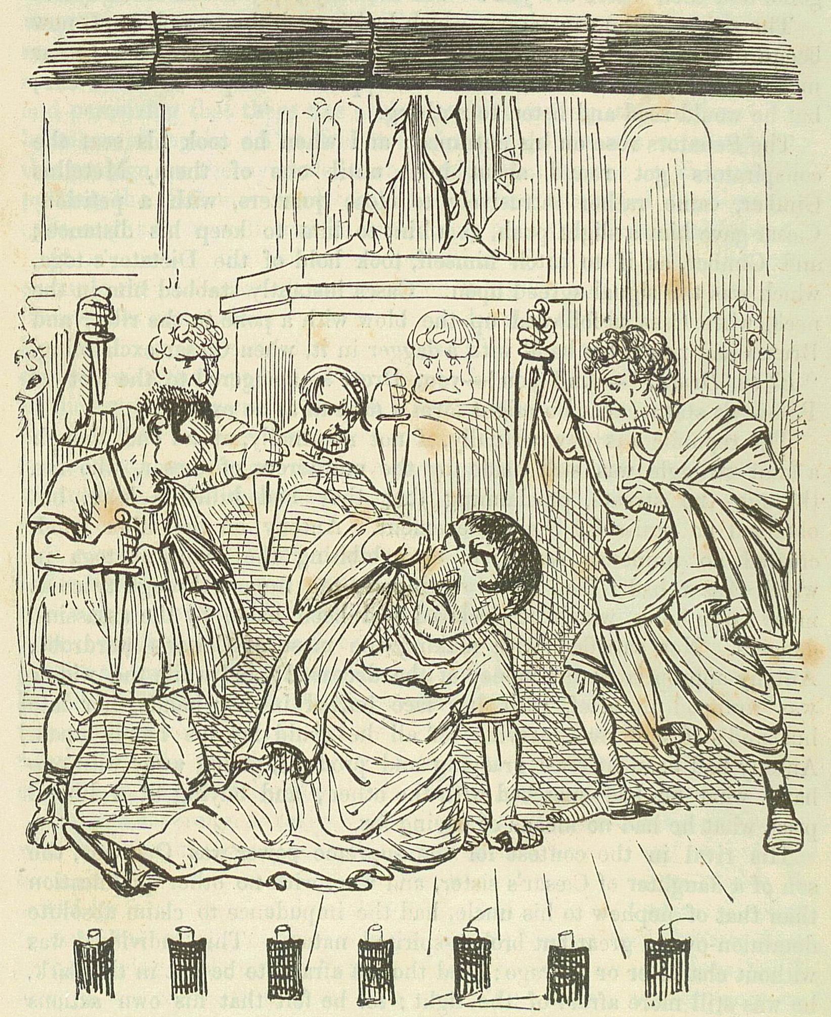 Image by John Leech, from: The Comic History of Rome by Gilbert Abbott A Beckett. Bradbury, Evans & Co, London, 1850s The End of Julius Caesar